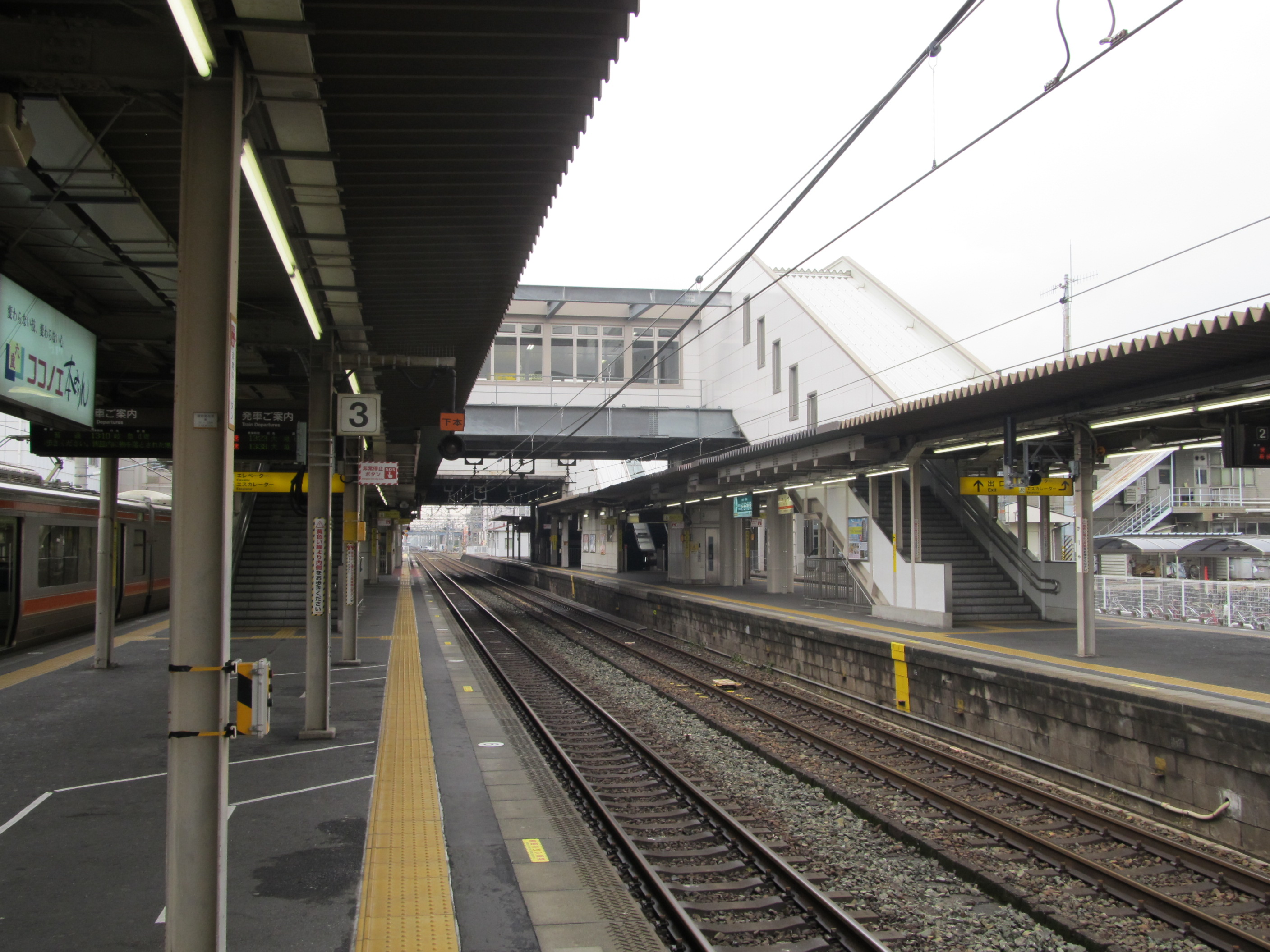 Central Japan Railway Tōkaidō Main Line Kariya Station Platform